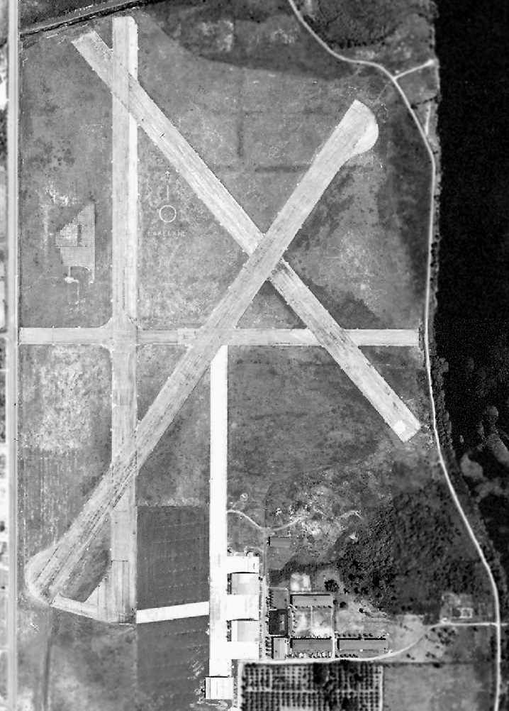 An April 1952 aerial view of Lakeland Municipal Airport. US Government photo, courtesy of FL DOT